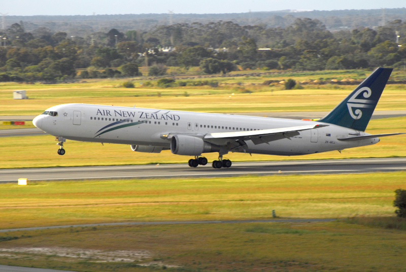 Air New Zealand 767 from Auckland landing Runway 24